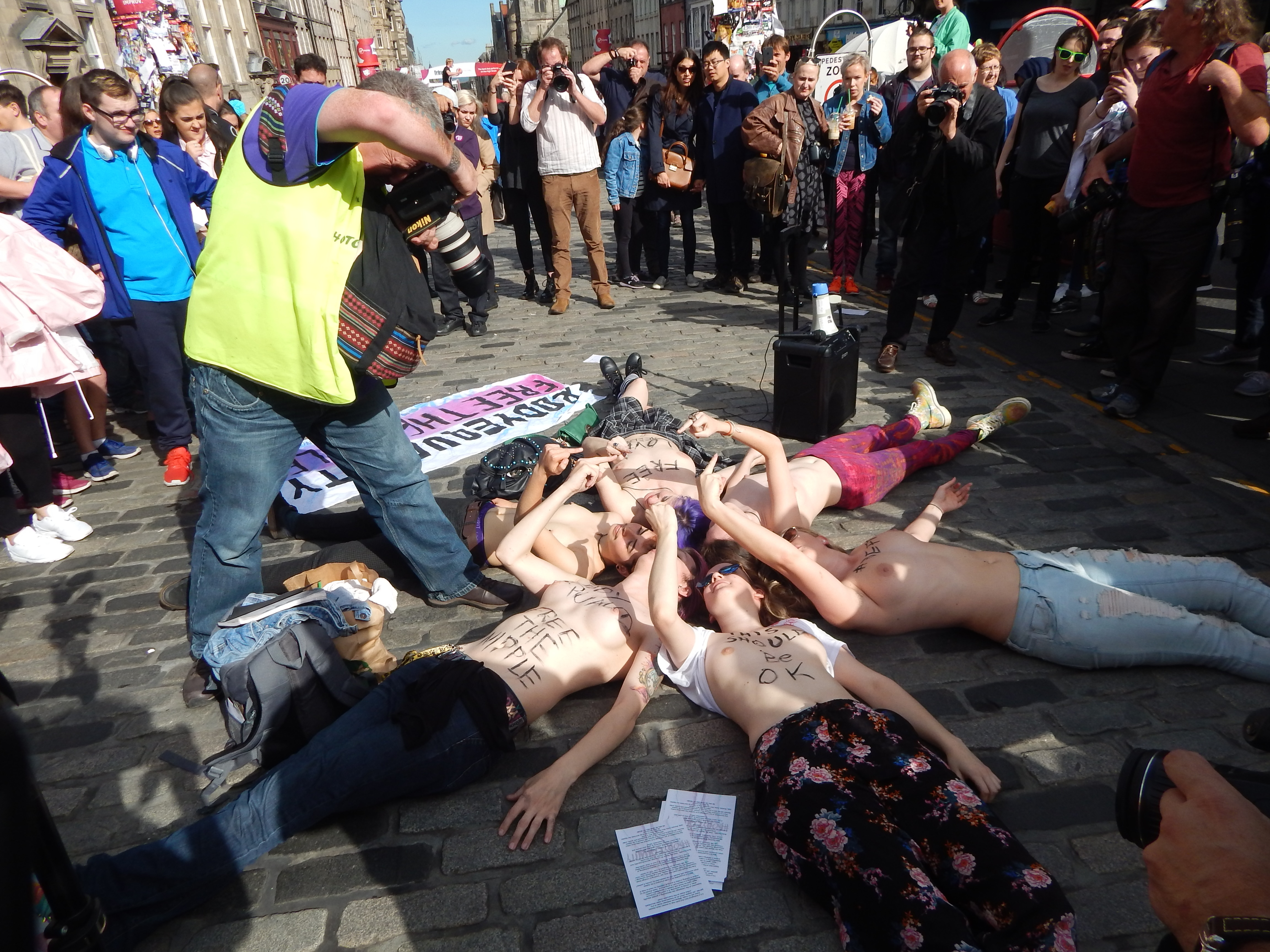 Free the Nipple Protest at Fringe 2017 Festival in Edinburgh